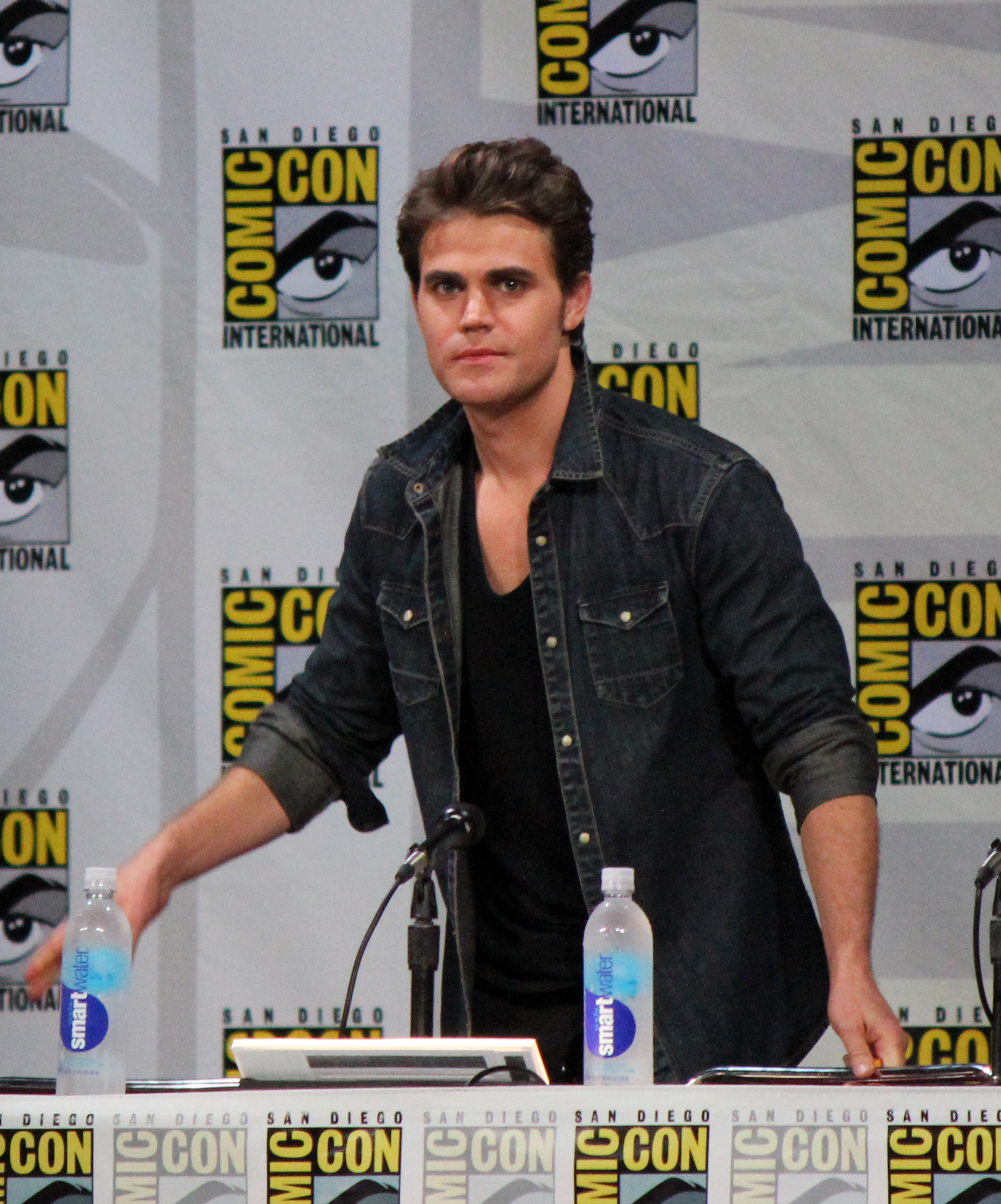 Paul Wesley at The Vampire Diaries panel at the 2014 Comic-Con convention in San Diego, California.